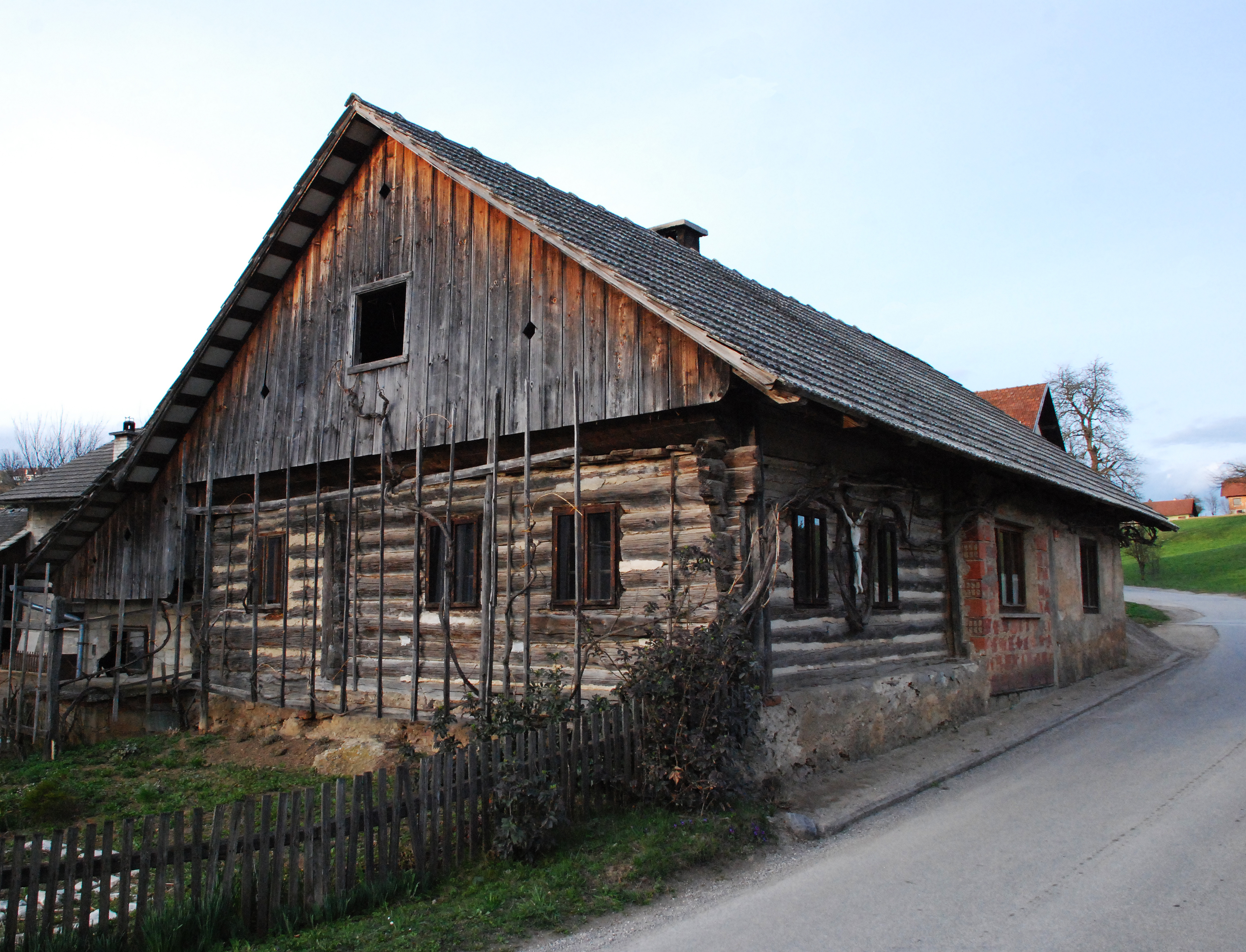 An old village house in Straža, Šentrupert, Lower Carniola, Slovenia.